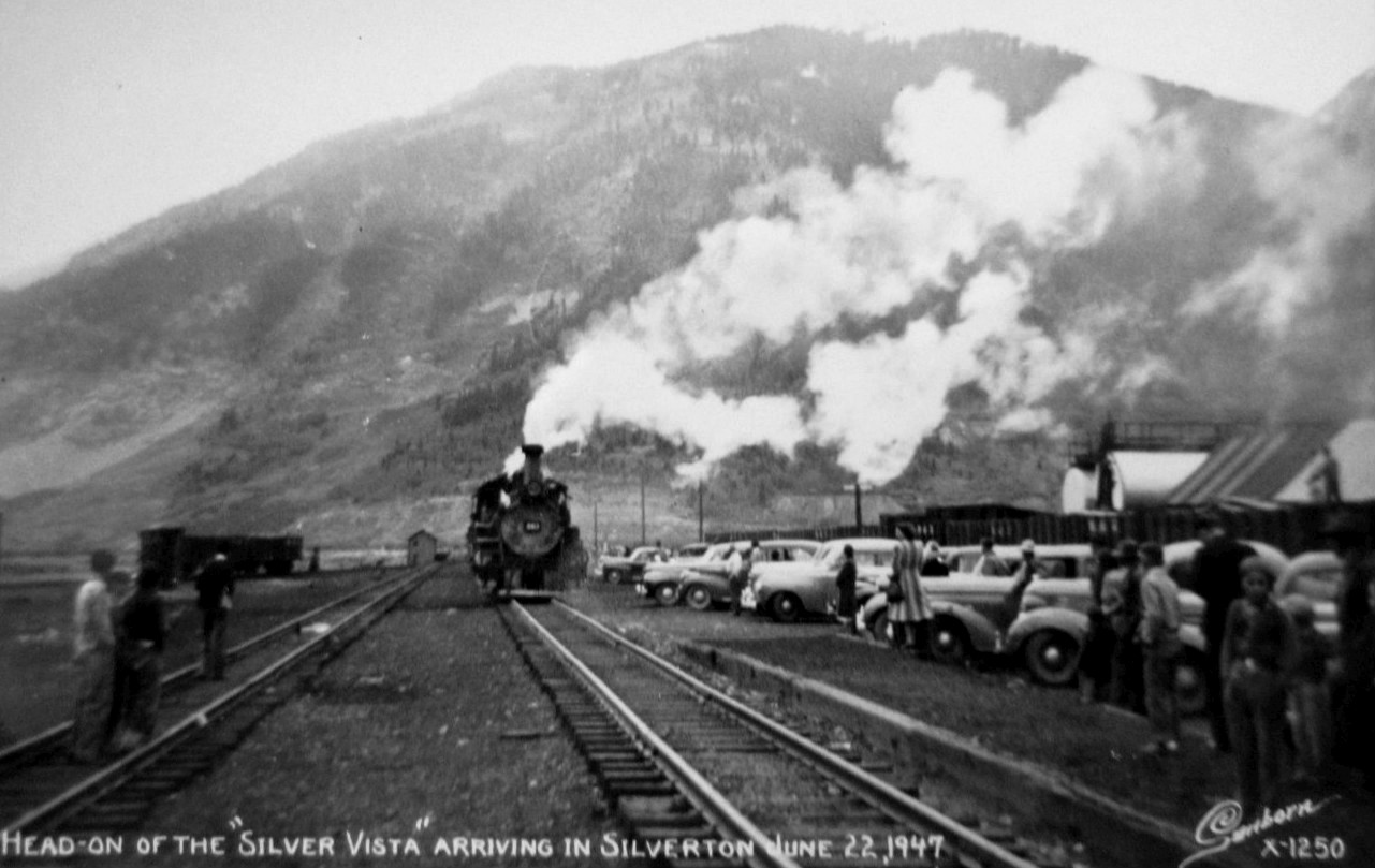 Arrival of the train pulling the new Denver and Rio Grande open observation car, the Silver Vista, on the railroad's narrow-gauge Silverton route in Silverton, Colorado.